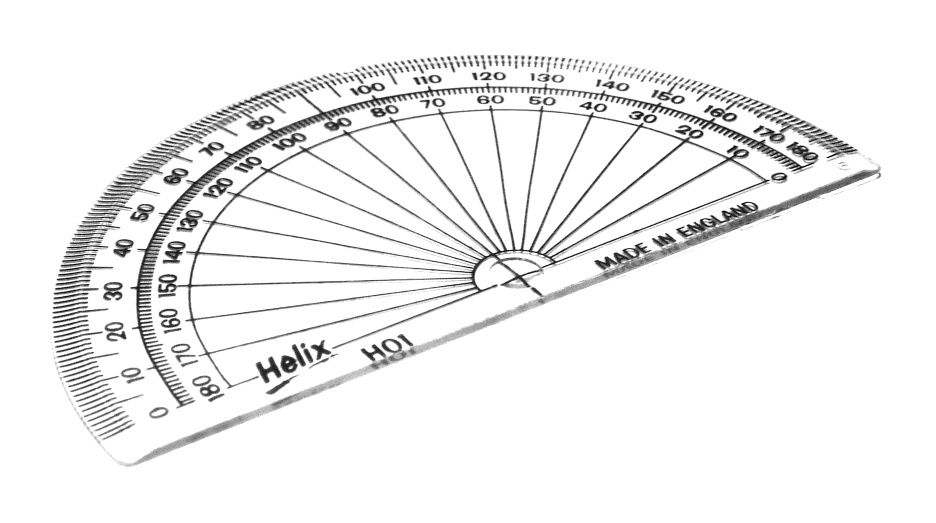 By Richard Wheeler (Zephyris) 2007.